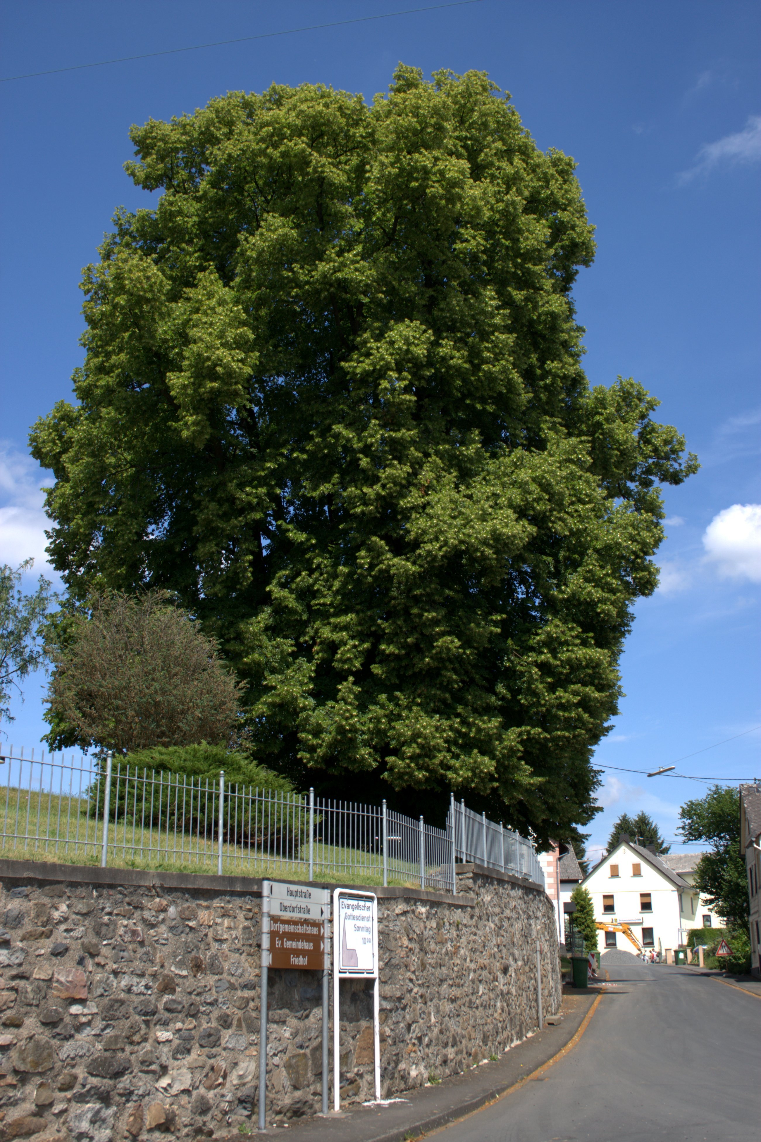 400 to 600 years old lime tree in Rückeroth, Westerwald, Germany, 10 m trunk diameter